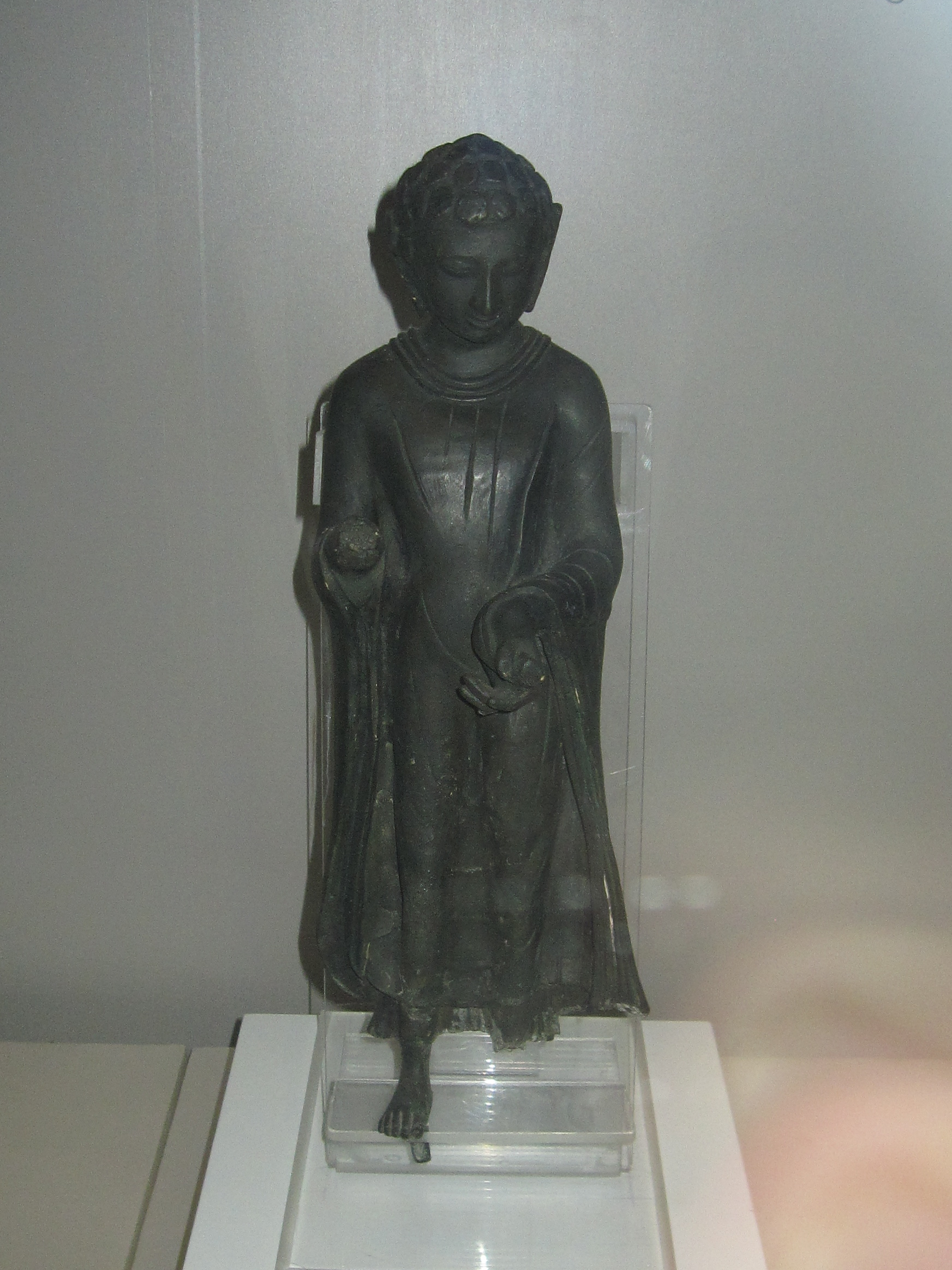 Standing Buddha statue made from brass, found in a tin mine in Pengkalan Pegoh, Ipoh, Perak in 1931.